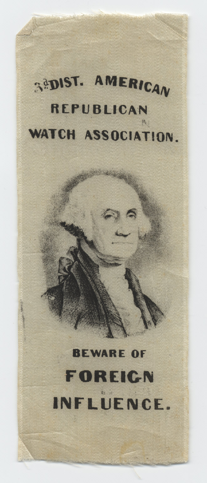 Collection: Cornell University Collection of Political Americana, Cornell University Library Repository: Susan H. Douglas Political Americana Collection, #2214 Rare & Manuscript Collections, Cornell University Library, Cornell University Title: Third District American Republican Watch Association Ribbon Political Party: American Republican Election Year: 1844 Date Made: ca. 1844 Measurement: Ribbon: 8 3/8 x 3 1/2 in.; 21.2725 x 8.89 cm Classification: Costume Persistent URI: There are no known U.S. copyright restrictions on this image. The digital file is owned by the Cornell University Library which is making it freely available with the request that, when possible, the Library be credited as its source.